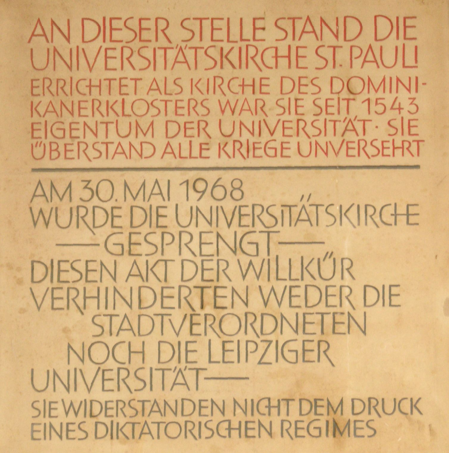 Plaque commemorating the destruction of the Paulinerkirche in Leipzig, Germany, on a building of the University of Leipzig At this location stood the university church St. Pauli Erected as church of the Dominican monastery, it was since 1543 property of the university. It survived all wars undamaged. ——————————————— On 30 May 1968 the university church was ——blown up— This arbitrary act was not prevented by ——municipal councillors —nor by the Leipzig University— They did not resist the pressure of a dictatorial regime